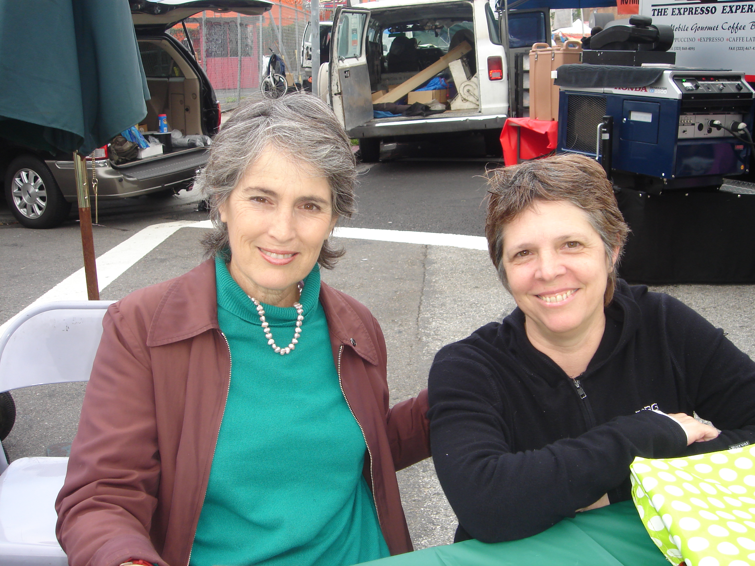 Deborah Madison (left) with Karen Gibbs (right)